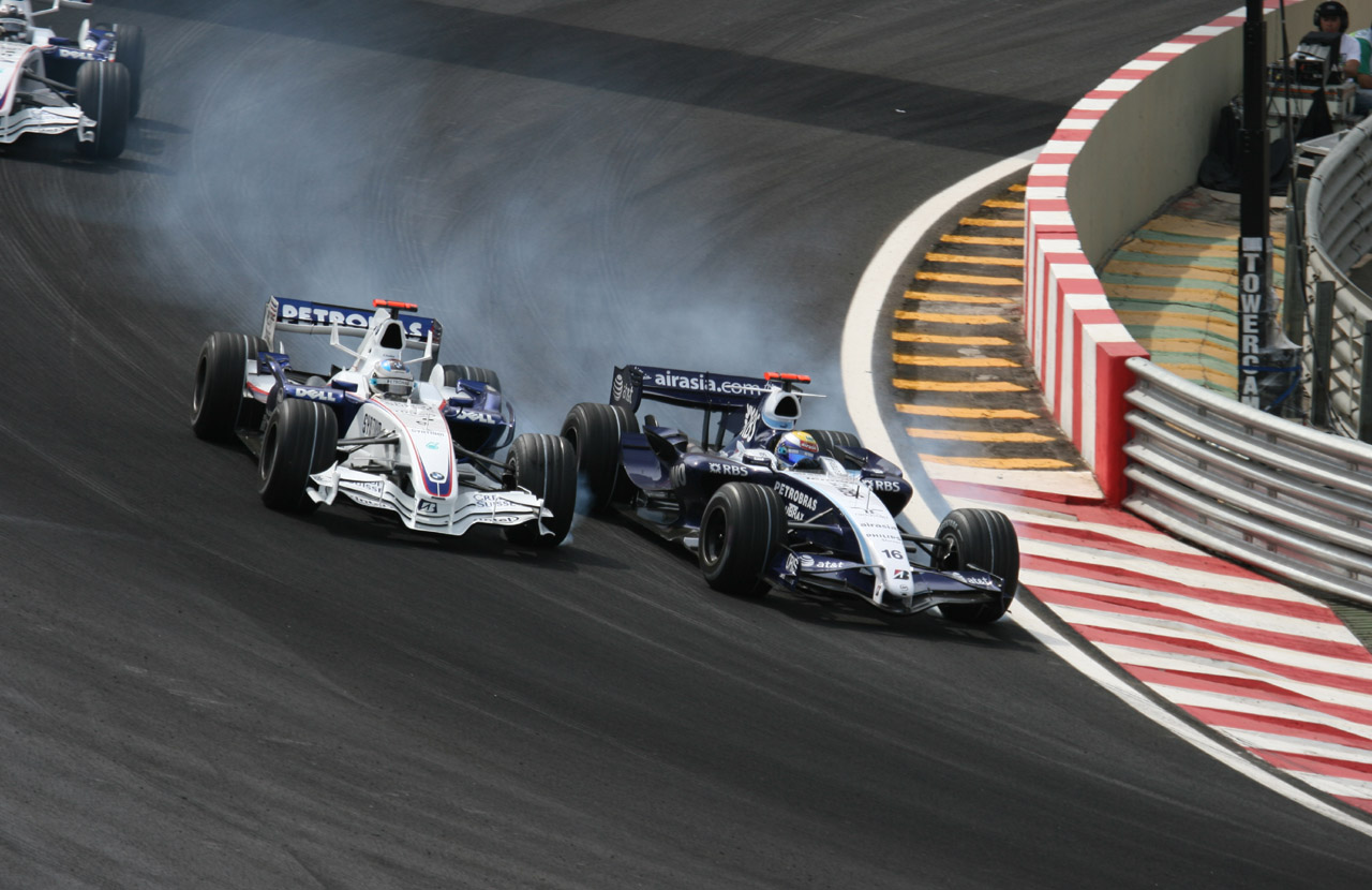 Formula One 2007 Rd.17 Brazilian GP: Nico Rosberg (Williams) overtaking Nick Heidfeld (BMW Sauber)